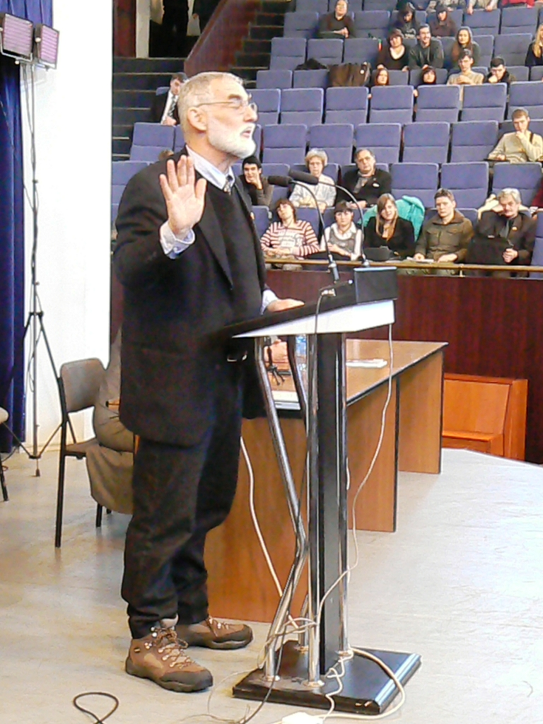 Dennis Meadows' lecture in the D. MENDELEEV UNIVERSITY of CHEMICAL TECHNOLOGY of RUSSIA, Moscow, 16 Febr.2007